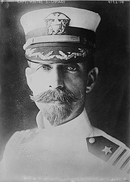 RADM Walter S. Crosley, pictured as a Captain, about 1917.